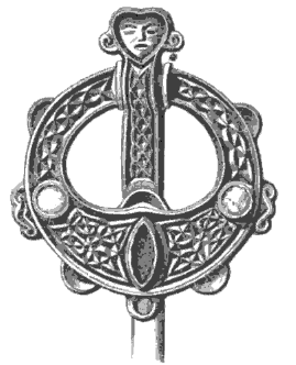 An 8th-century copper-alloy brooch-pin called the Cormeen Brooch was found during the excavation of the Woodford Canal. County Cavan in the 1840s.